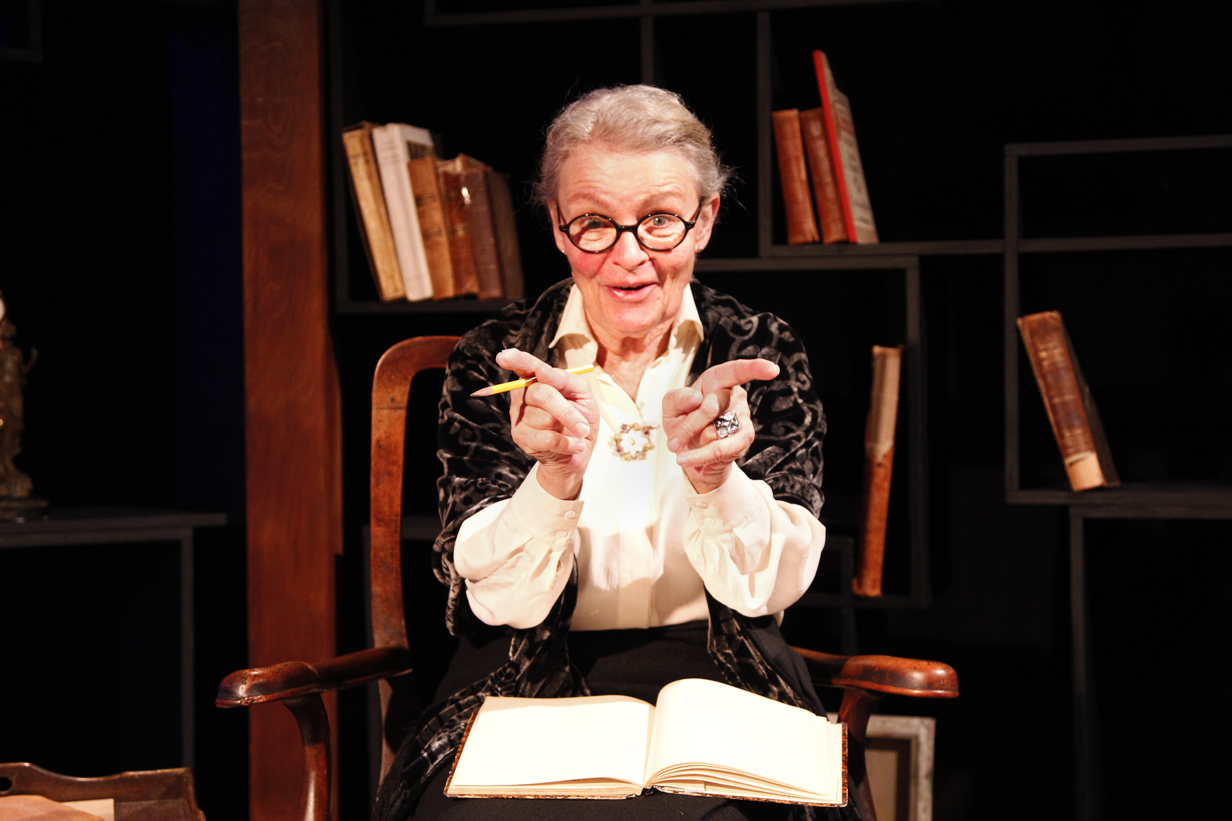 Lane Lind as Gertrude Stein in the Copenhagen theater Folketeatret's production of the play "Gertrude Stein" by Marty Martin.